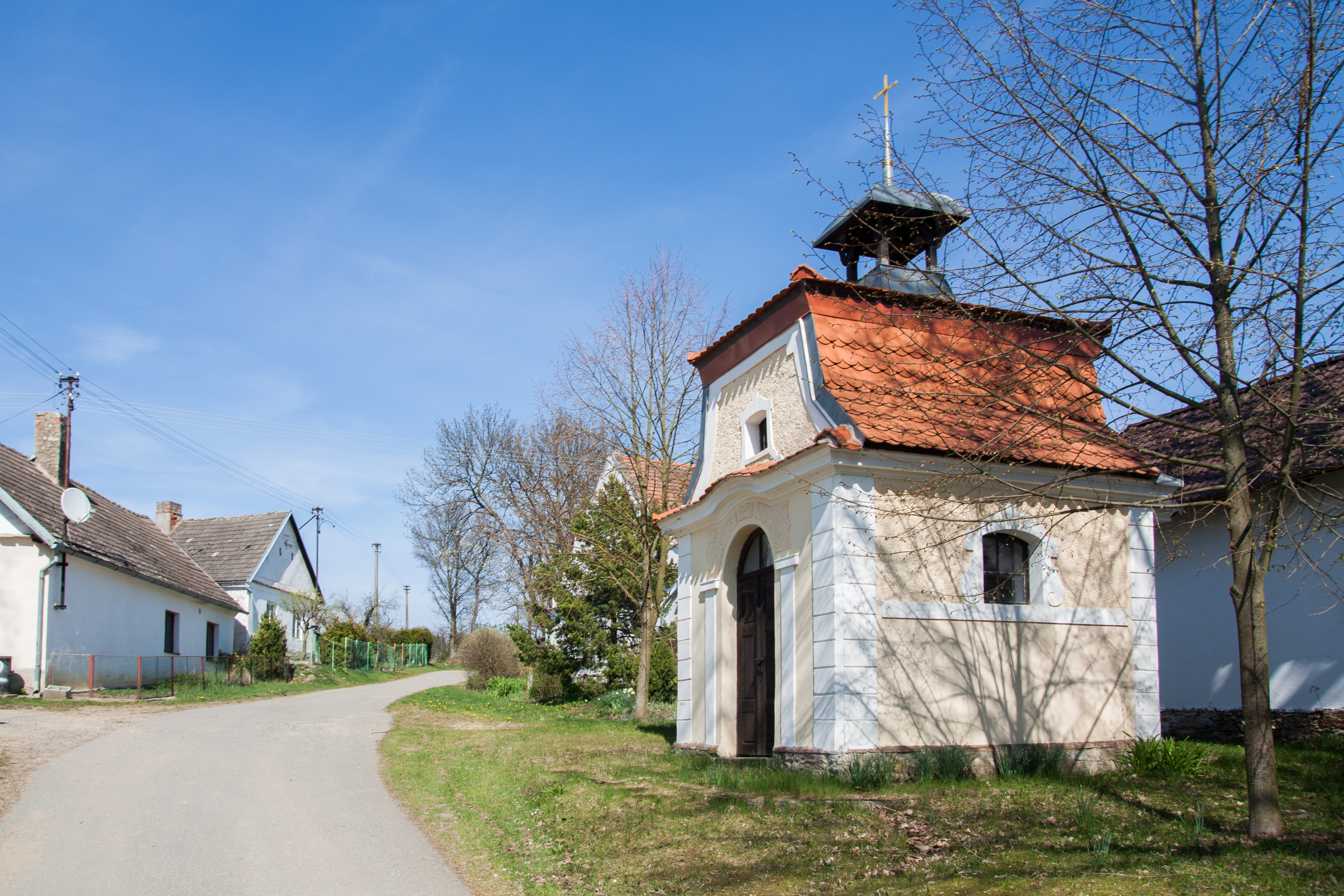 Chapel in municipality Malenín, Tábor District, South Bohemian Region, Czechia